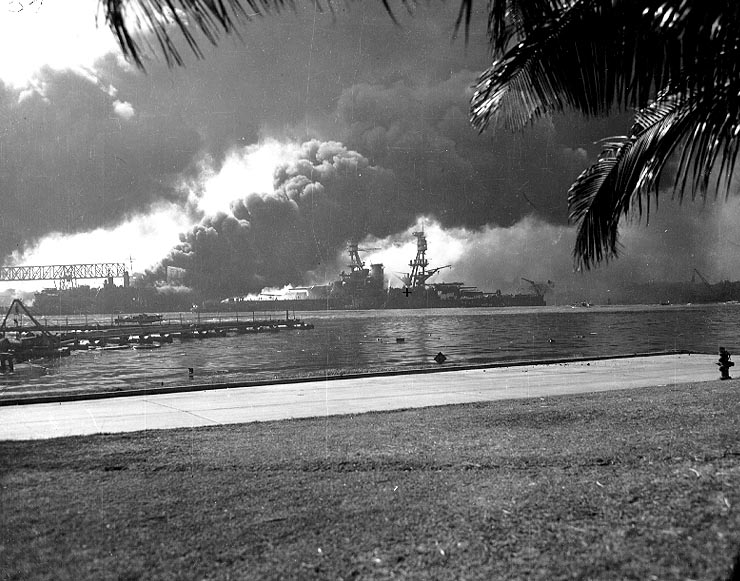 December 7, 1941 USS Nevada (BB-36) afire off the Ford Island seaplane base, with her bow pointed up-channel. The volume of fire and smoke is actually from USS Shaw (DD-373), which is burning in the floating dry dock YFD-2 in the left background. Photographed from the southeastern shore of Ford Island, near the Naval Air station HQ building. A dredging line is visible at left. Removed caption read: Photo # 80-G-32457 USS Nevada afire at Pearl Harbour, 7 December 1941 ◄ 1 2 3 4 5 6 7 8 9 10 11 12 13 14 15 16 17 18 19 20 21 22 ►